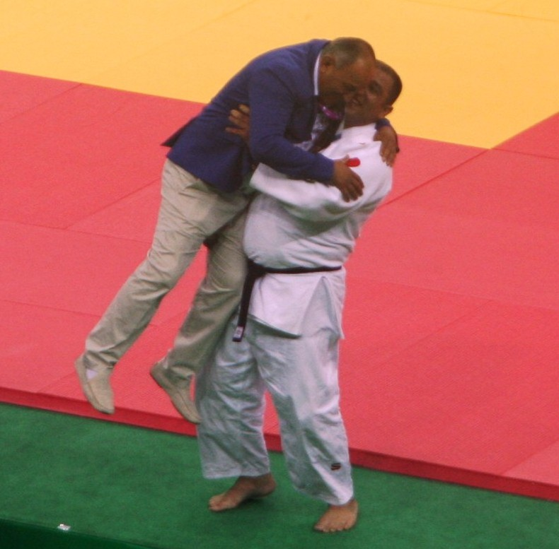 Zakiyev and his coach Ibrahimov at the gold final of the 2015 European Games